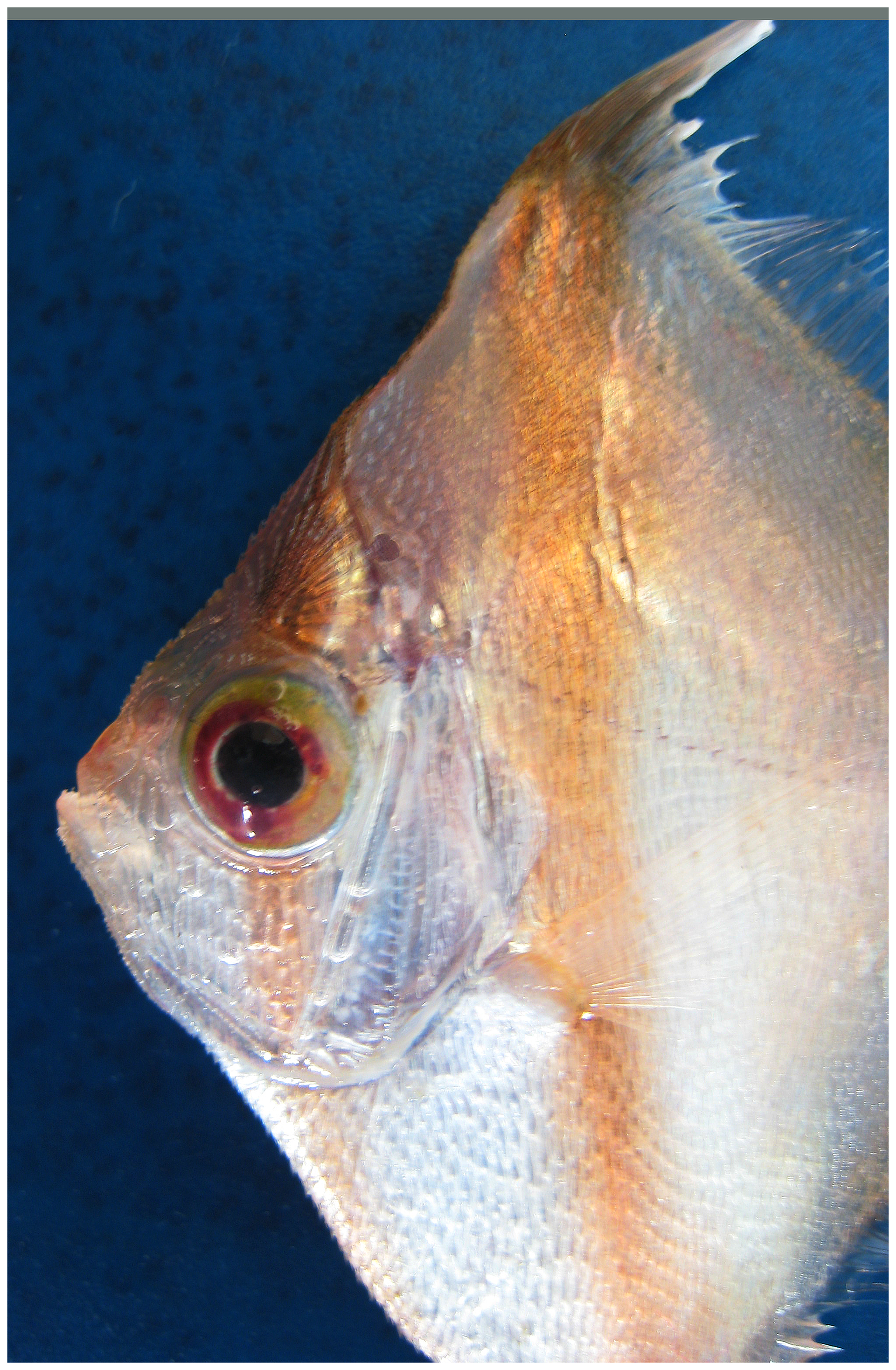 Antigonia capros Lowe, 1843—deepbody boarfish, 37 mm SL, close-up of head. Photo by W Toller.